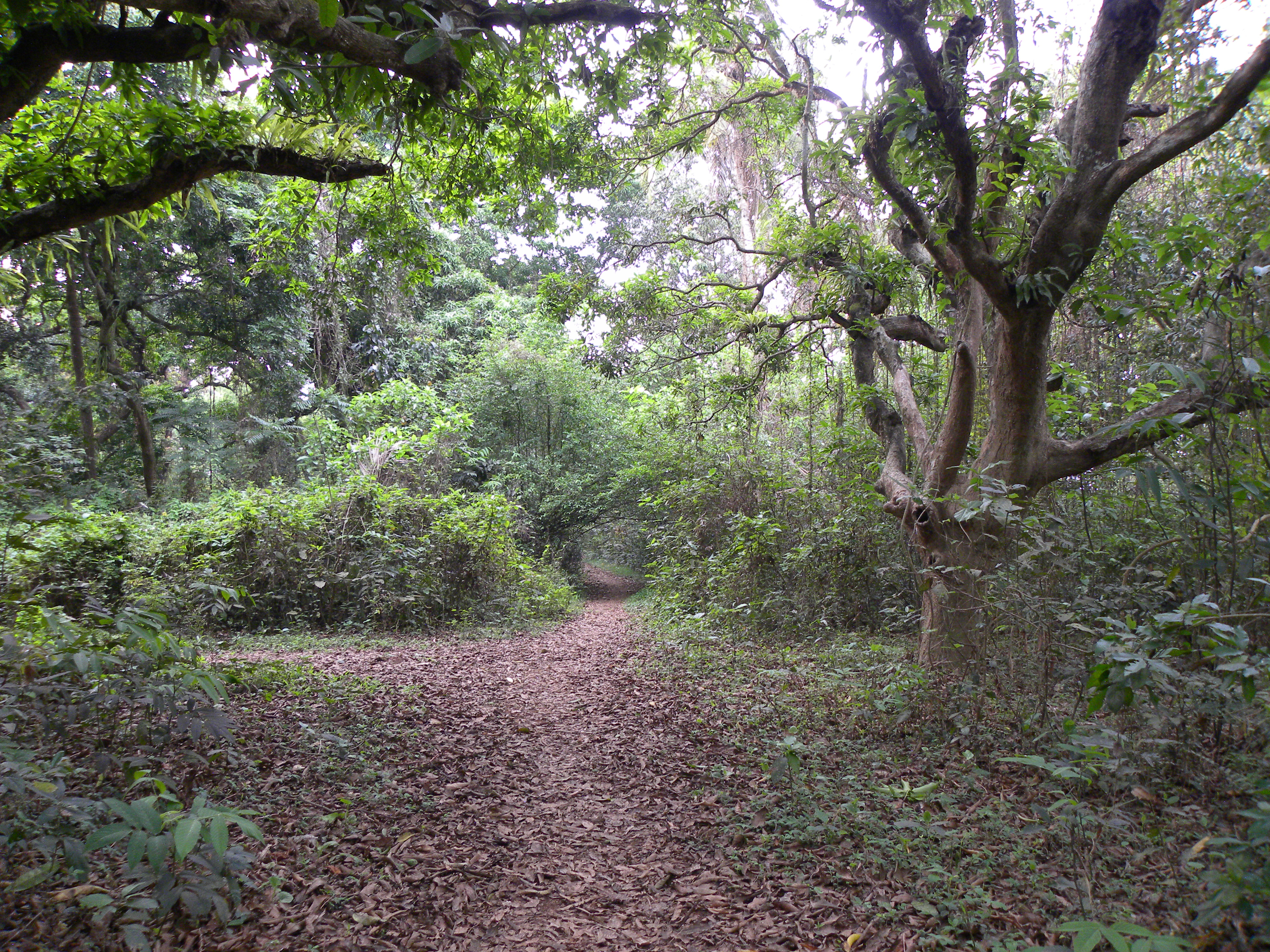 Inside Chintamani Kar Bird Sanctuary, Kolkata, India